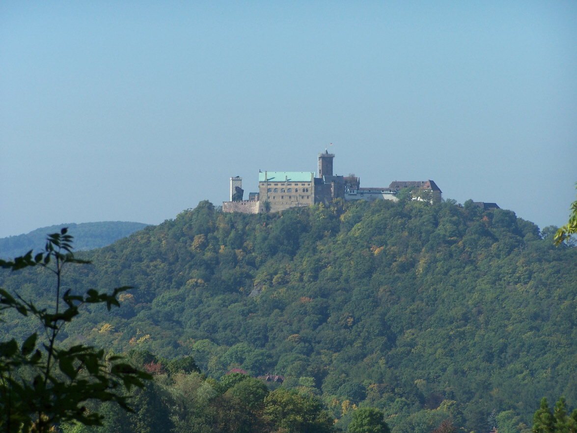 The Wartburg castle seen from east.